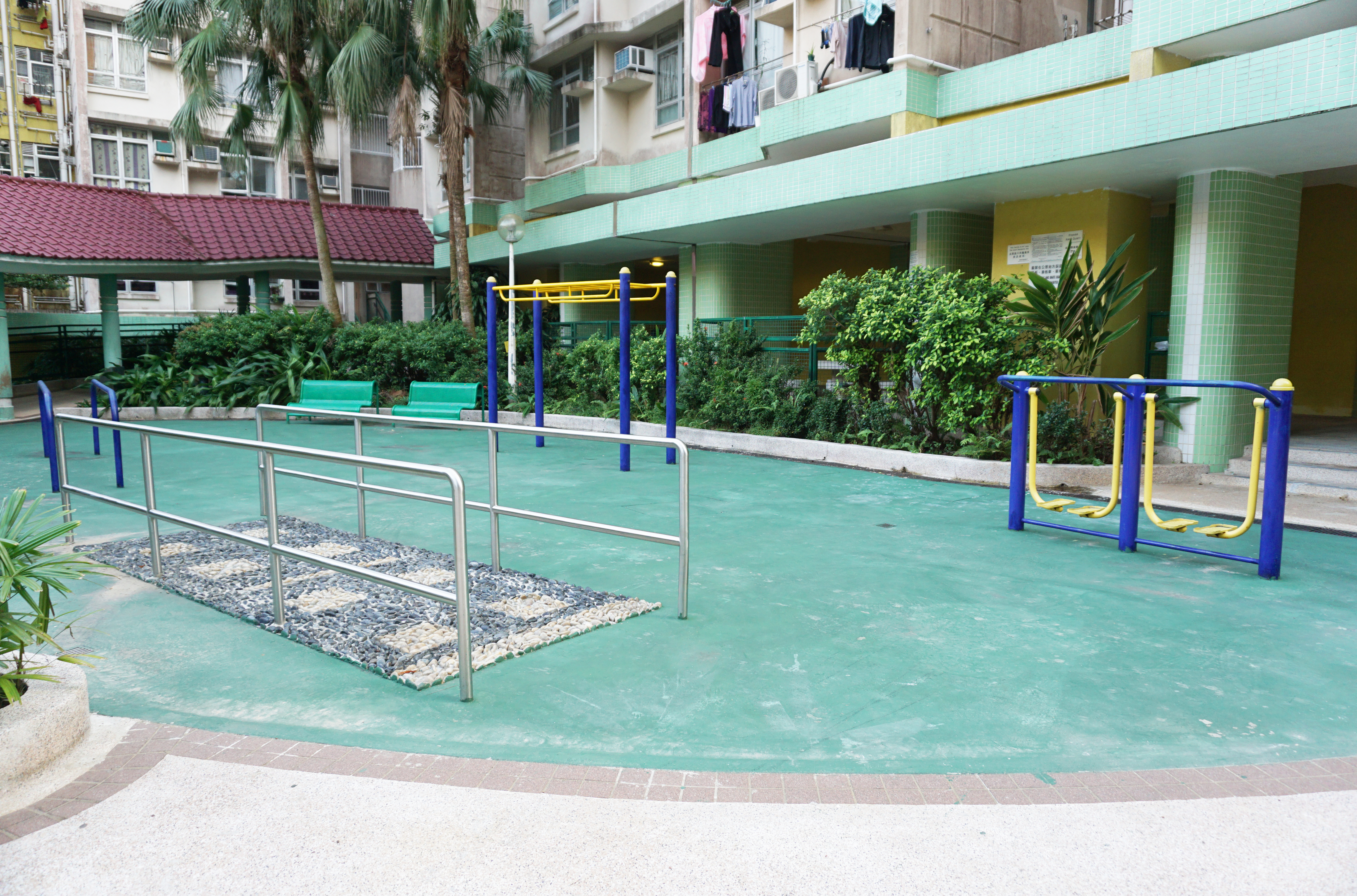 Lung Tak Court in Stanley, Hong Kong.